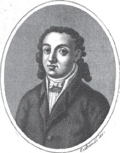 Luigi Eredia, Sicilian poet